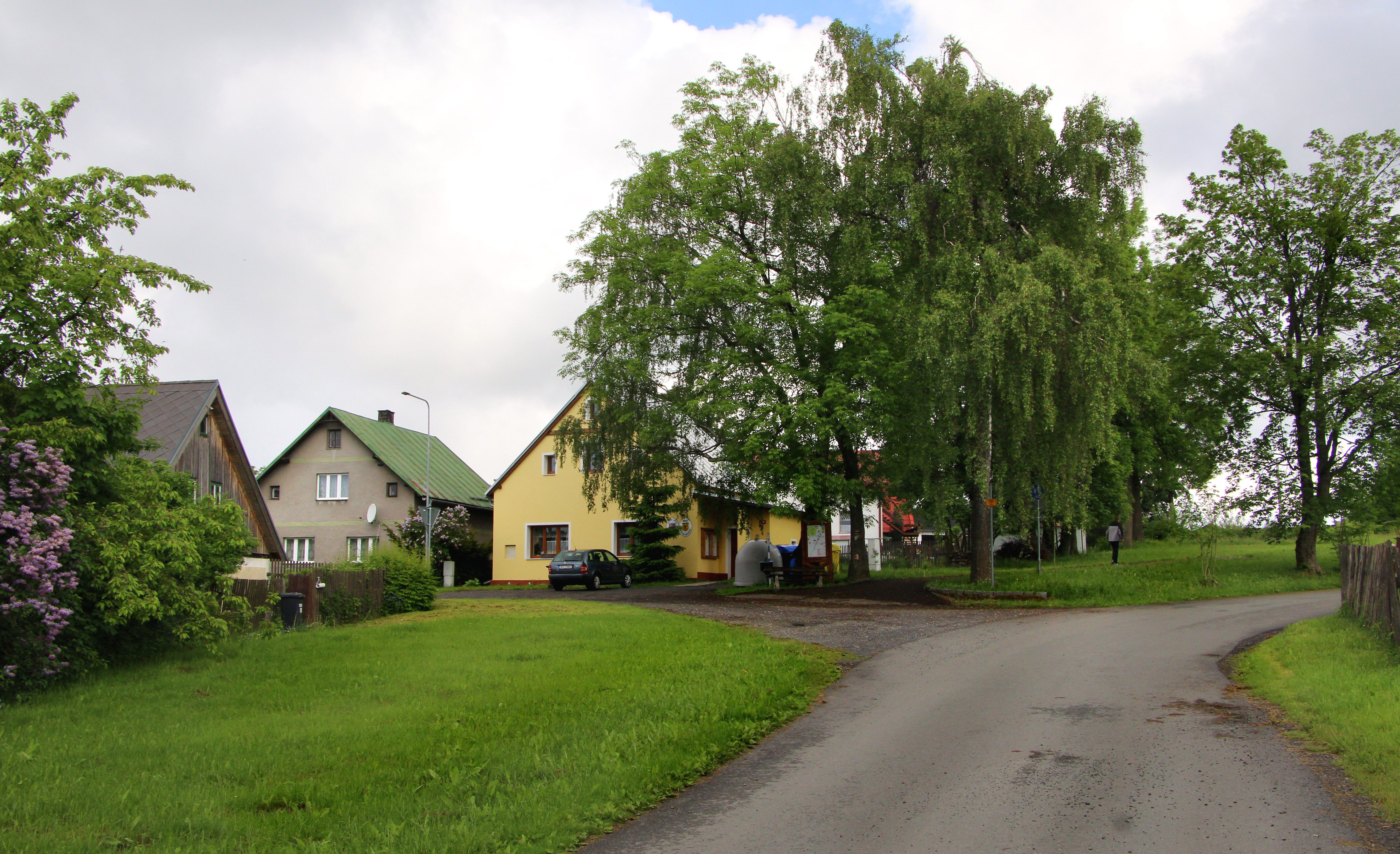 Common in Zádub, part of Zádub-Závišín, Czech Republic.